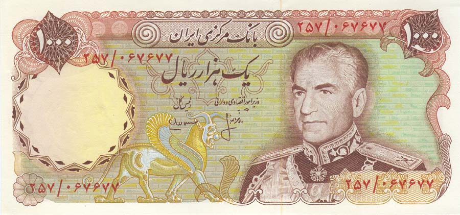 Banknote of second Pahlavi - 1000 rials (front) banknote of central bank of Iran. Part of the 1960–1980 series.